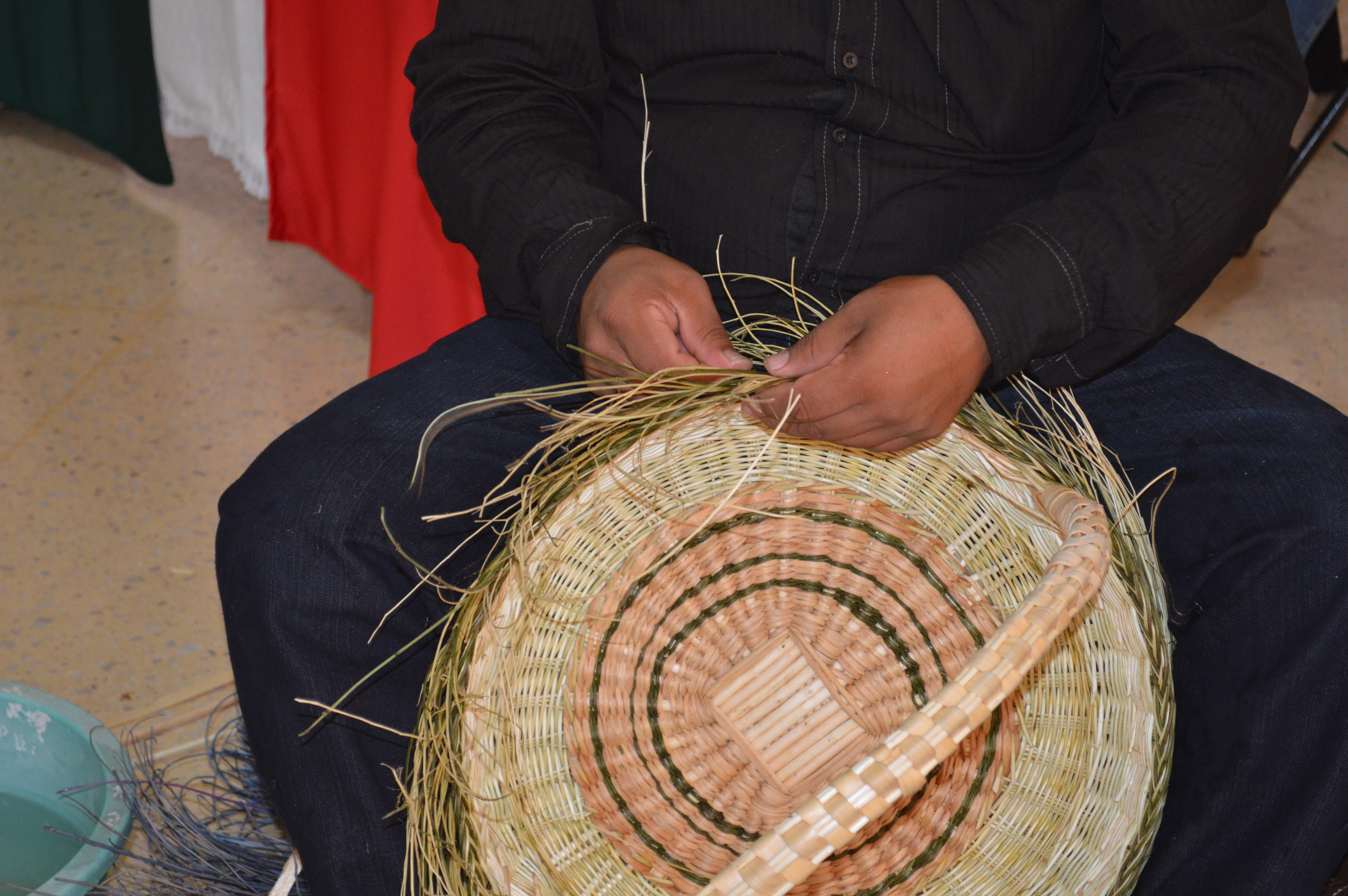 Demonstration of baskets by the Apolinar Hernandez Balcazar family at the Feria de Rebozo in Tenancingo, Mexico State, Mexico